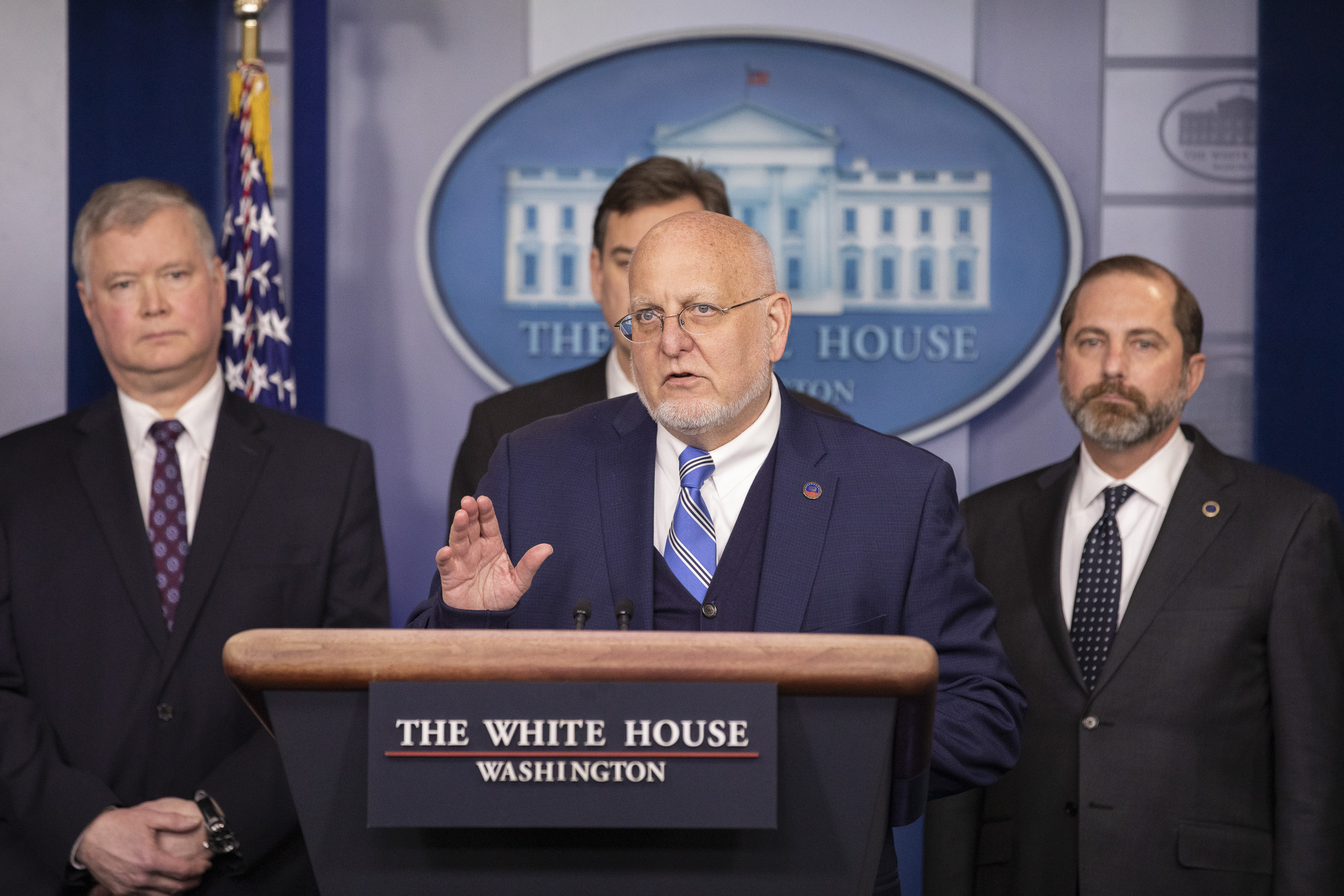 Dr. Robert R. Redfield, Director of the Centers for Disease Control and Prevention, addresses a briefing on the latest information about the Coronavirus Friday, Jan. 31, 2020, in the James S. Brady Briefing Room of the White House. (Official White House Photo by Keegan Barber)